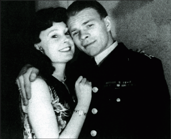 Josef Bryks (1916–1957) was a Czechoslovak soldier and airman, a participant of the Czechoslovak anti-Nazi resistance (RAF) and a victim of communist terror. In the photo with his English wife Trudie Bryks (1920–2011) at home in Olomouc (year 1947).